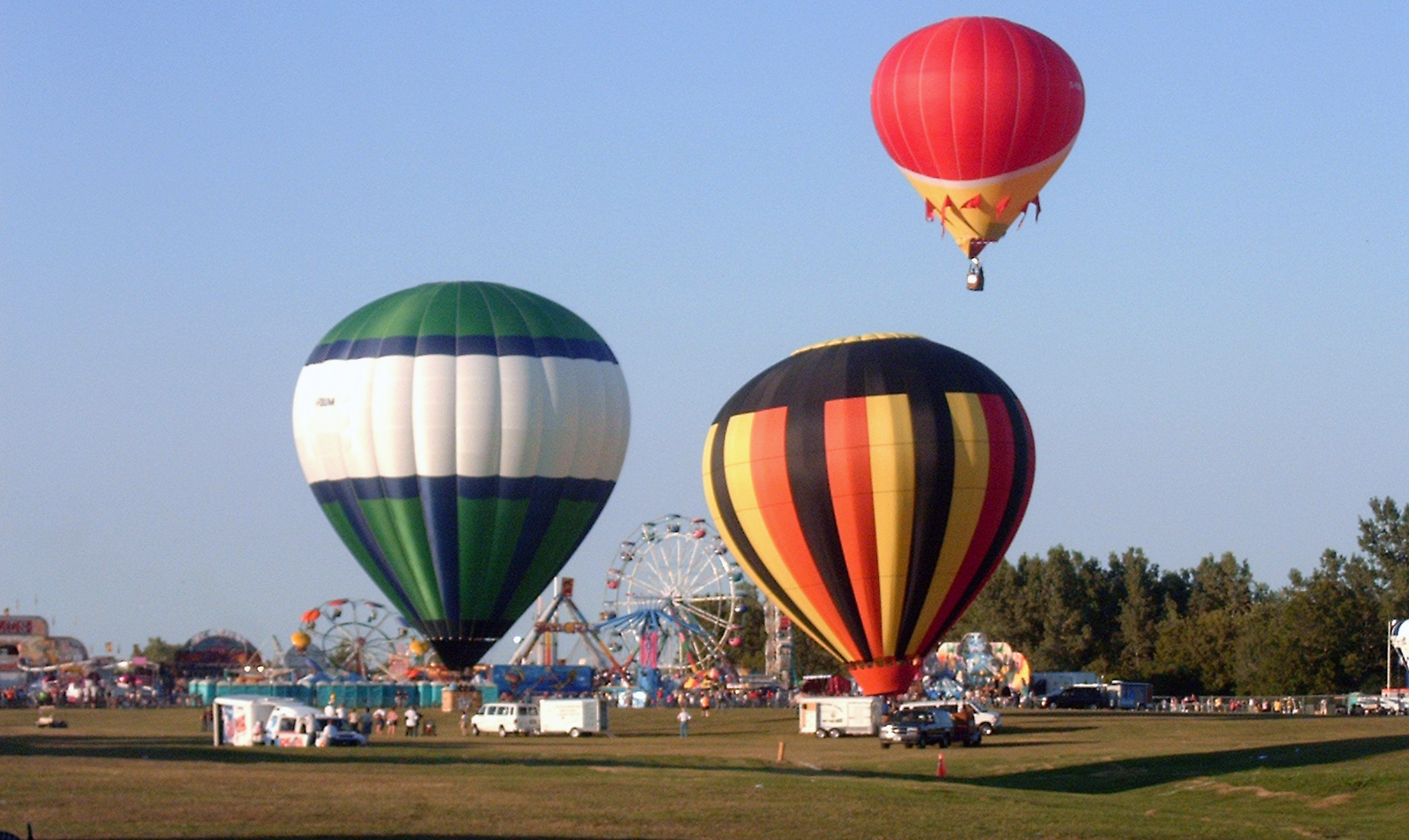 Ballons in Gatineau